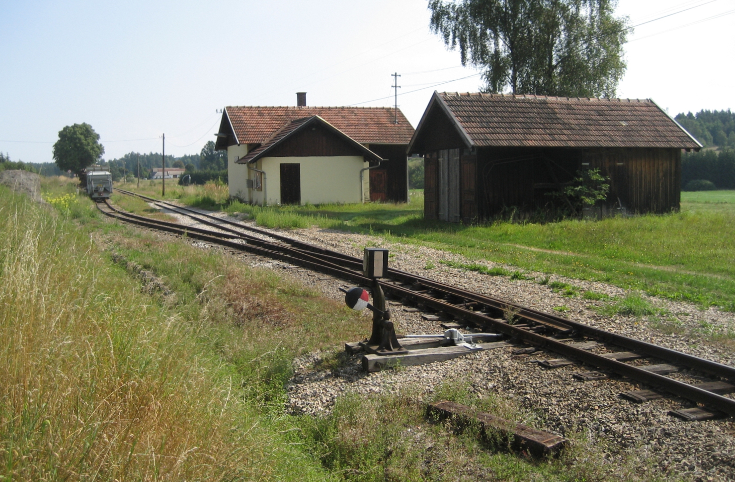 Aalfang train station in Lower Austria